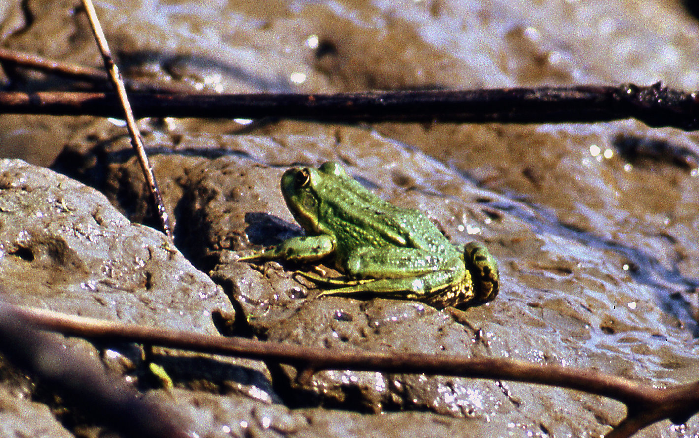 Marsh frog (Rana ridibunda) living in the area of the Danube delta.